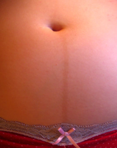 Linea nigra in Asian American woman at 22 weeks pregnant. Canon Powershot A80 digital camera. Taken 12/26/2004 by Jeremy Kemp.